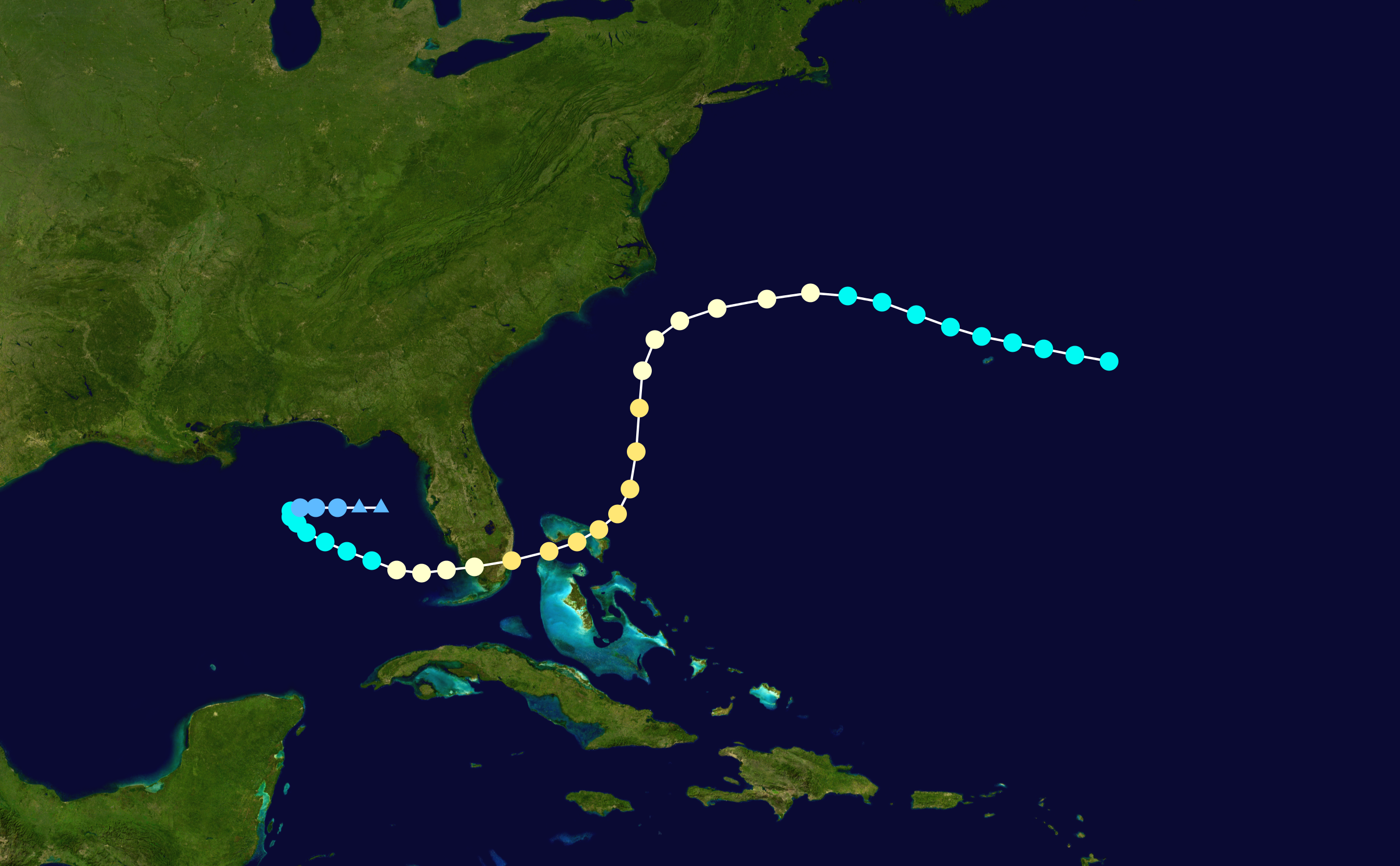 1935 Atlantic hurricane 7 track. Uses the color scheme from the Saffir-Simpson Hurricane Scale.